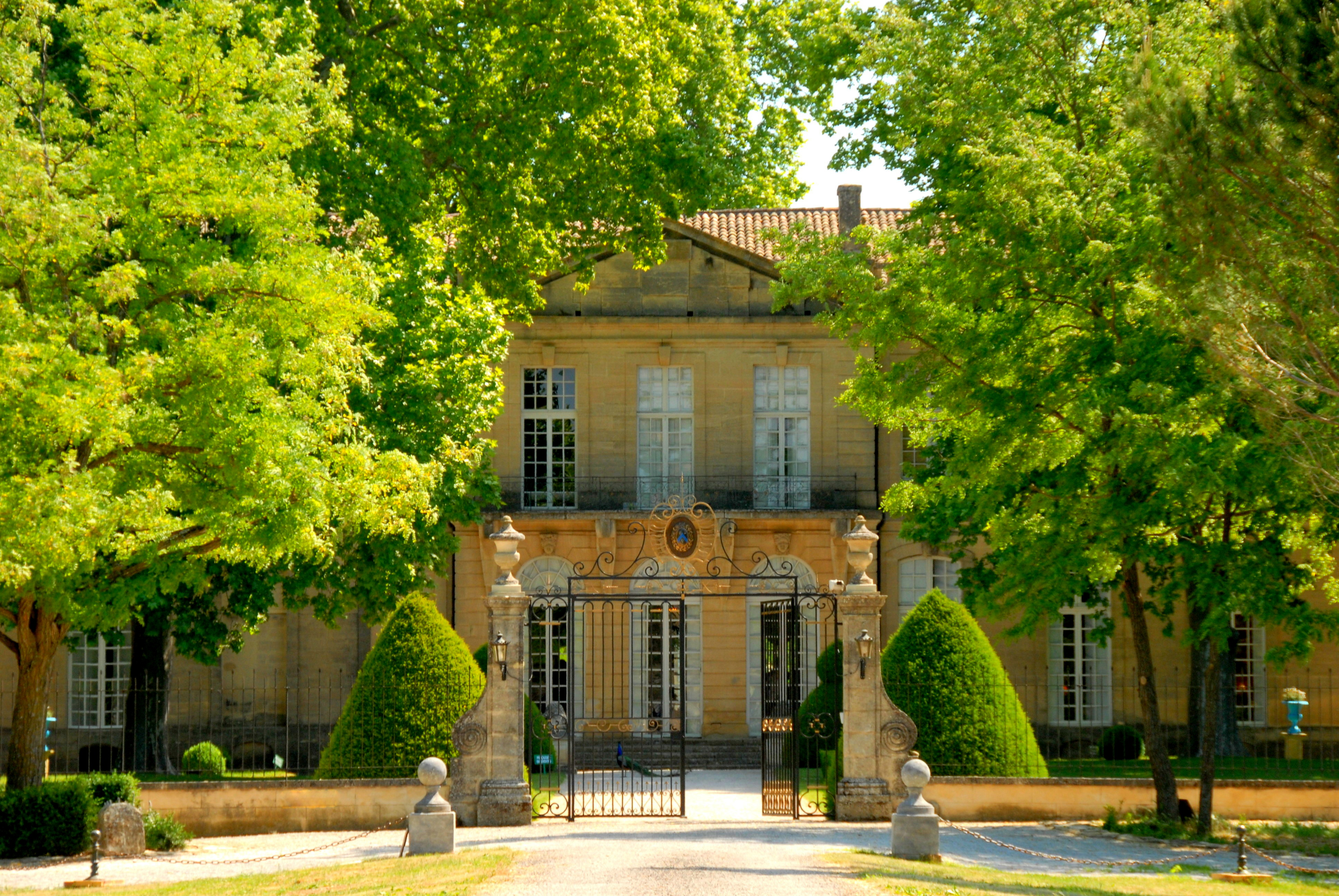 Castle of Sauvan